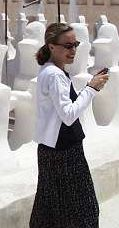 Acting Public Affairs Officer Jennifer Bryson Image Copyright U.S. Embassy in Sanaa, Yemen.